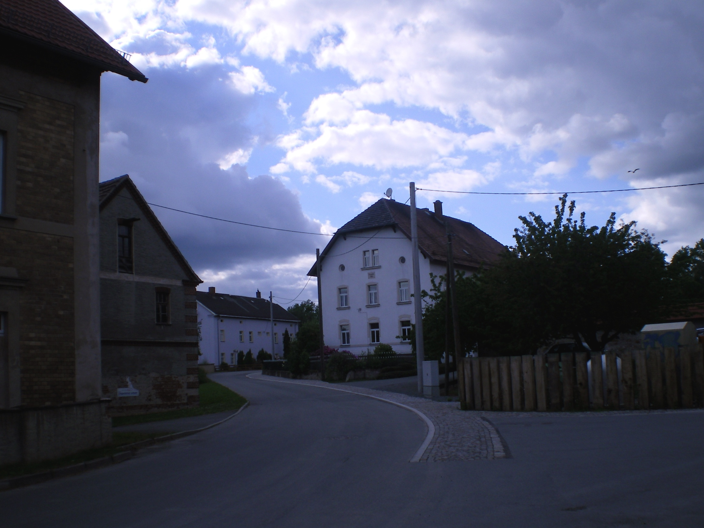 Central place in Schmölln-Nitzschka near Gera/Thuringia in district of Altenburger Land